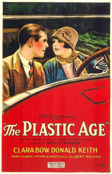 Poster for the 1925 film The Plastic Age. A search for renewal was done in both Motion Pictures and Artwork for the years 1952 and 1953 There were no listings for this title in Motion Pictures and no listings for the title or Preferred Pictures in Artwork. There's no evidence of copyright continuing on this.